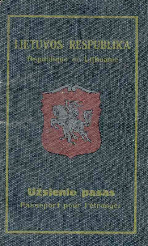 Lithuanian pasport until 1940